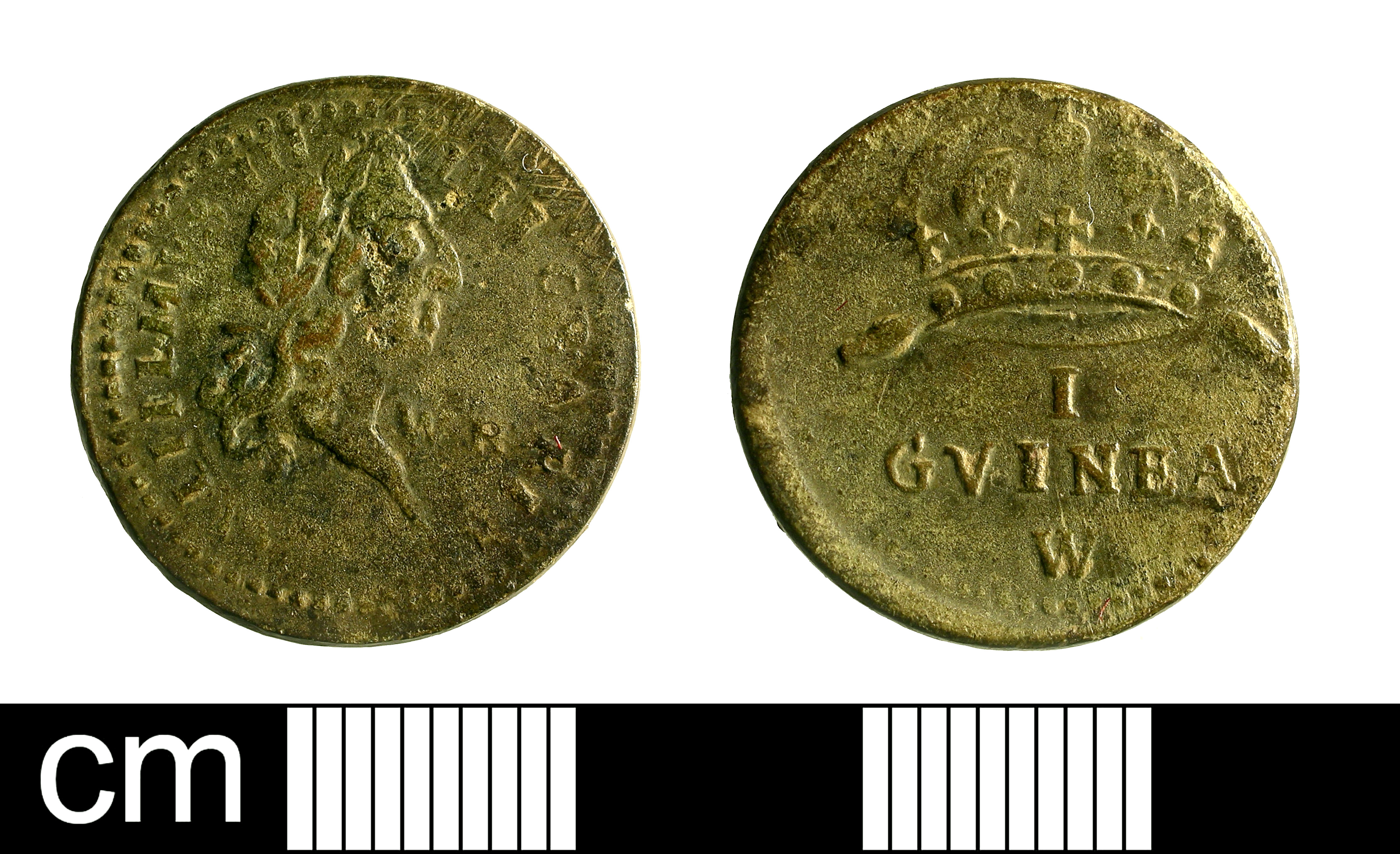 A copper-alloy circular coin weight for a guinea of William III, made by founder William Hayward (c. 1690-1700). Dimensions: 20.5mm diameter, 3.2mm thick. Weight: 8.11g. Obverse: Laureate head right, 'WH' in right field. 'GVLIELMVSIII-DEI GRA REX' Reverse: Crown above legend. 'I/GVINEA/W'.